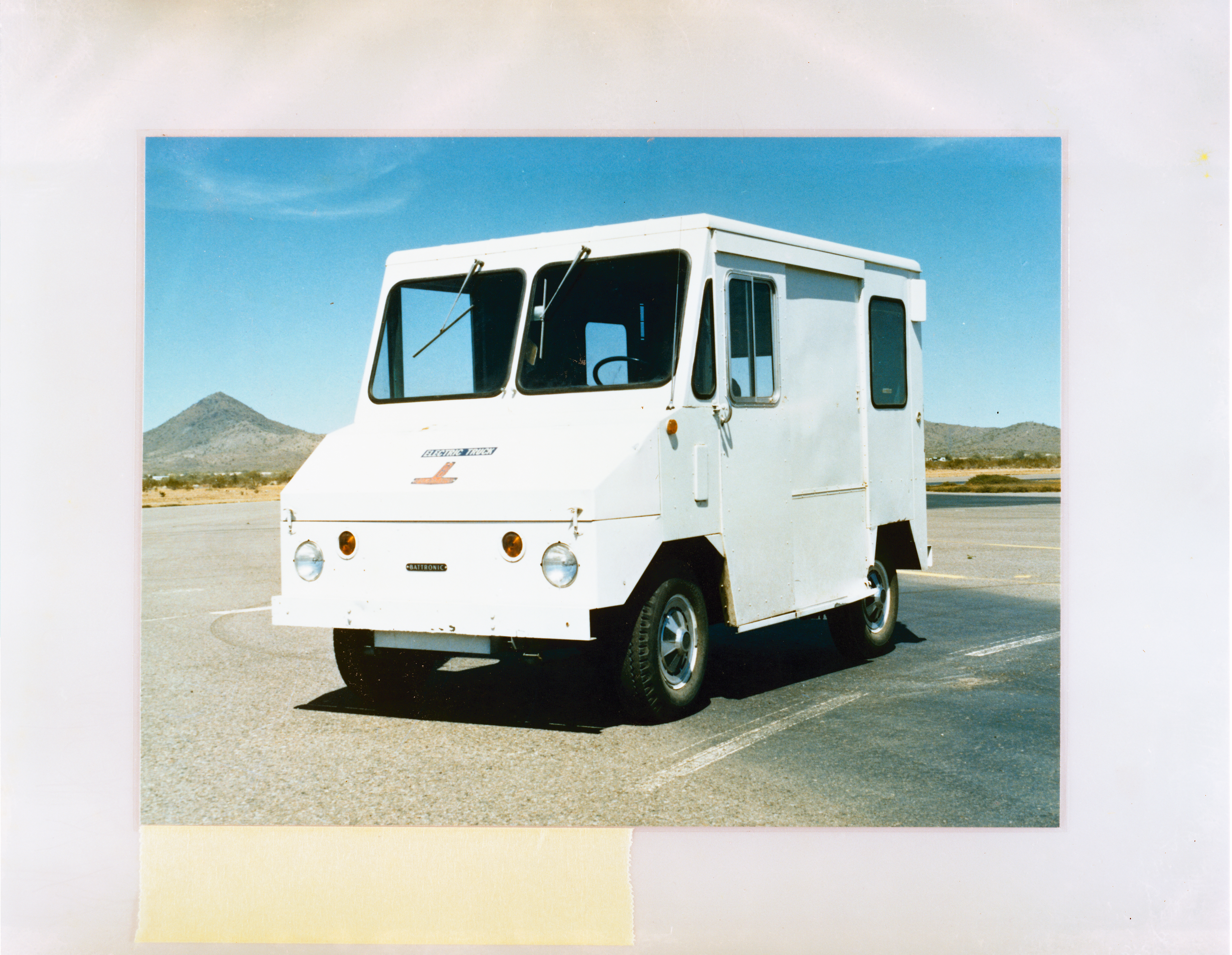 Scope and content: The original finding aid described this as: Capture Date: 8/16/1977 Keywords: c1977_03000s 1977_03098.jpg Larsen Scan